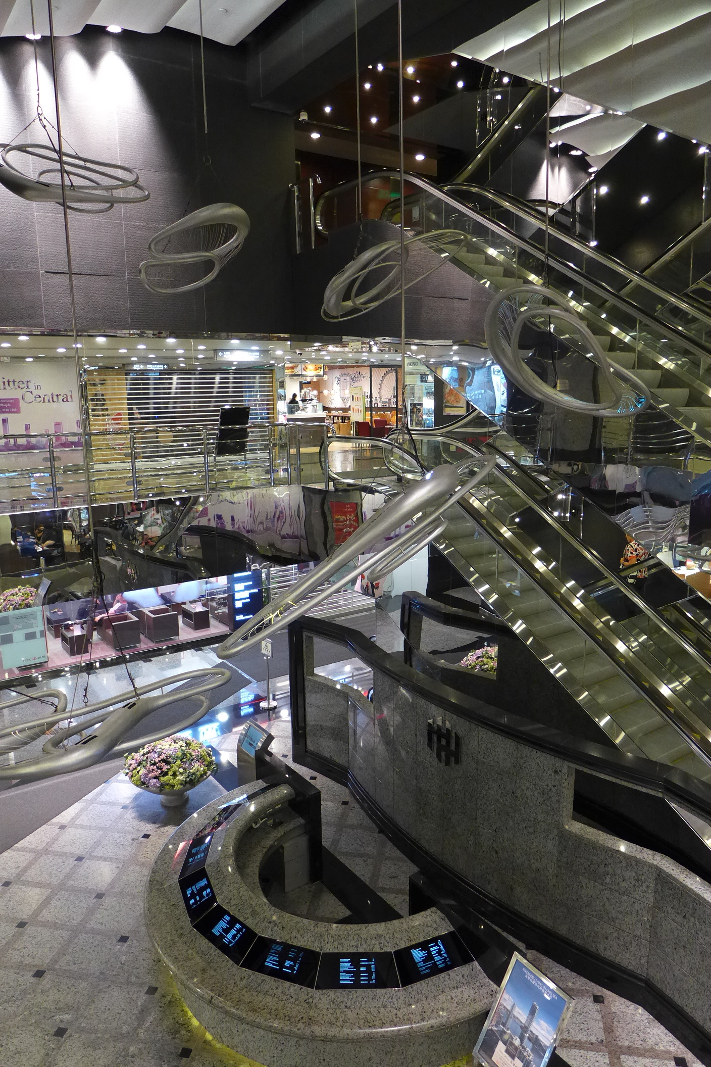 Hutchison House Void